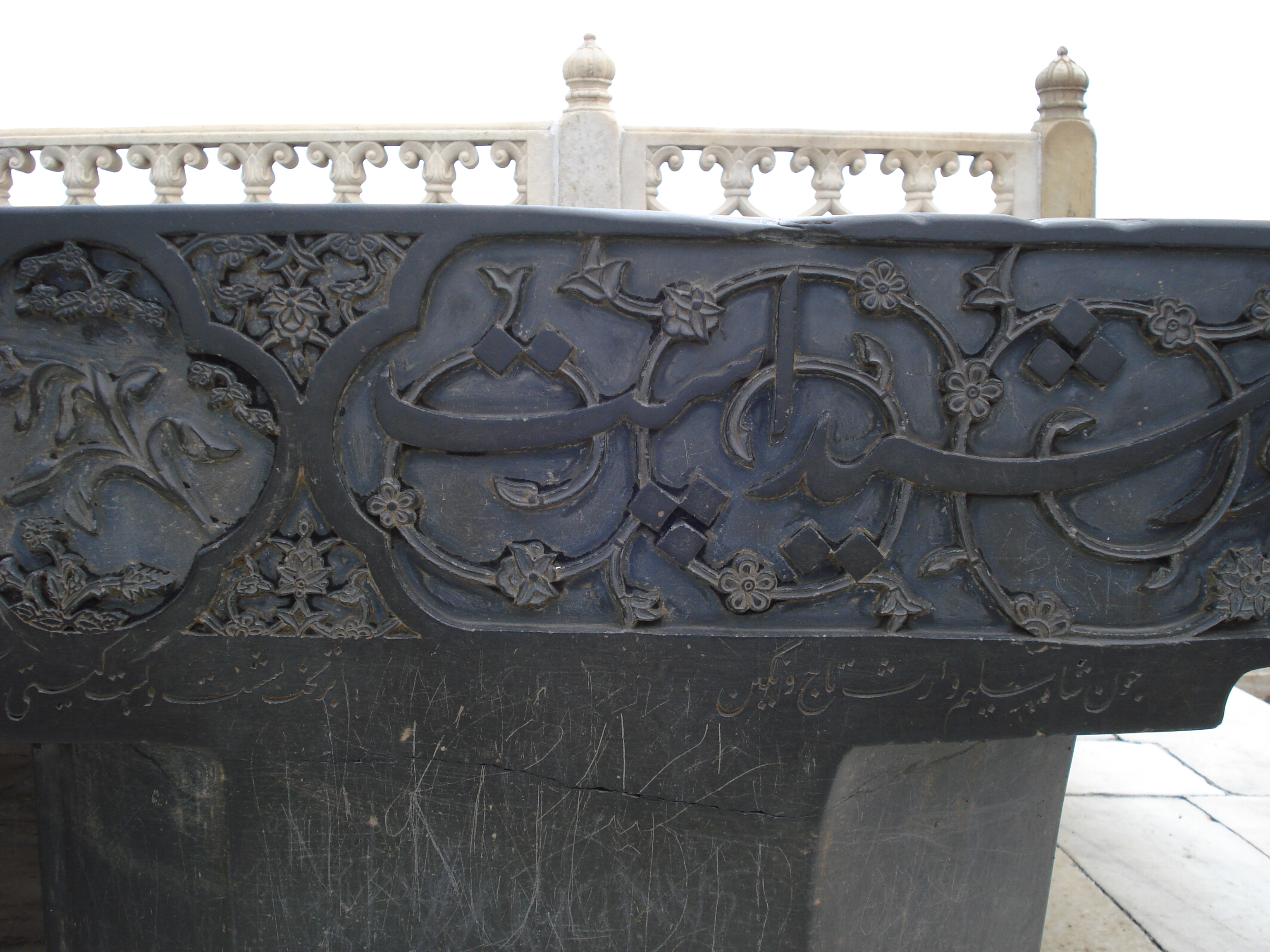 Agra castle India persian poem